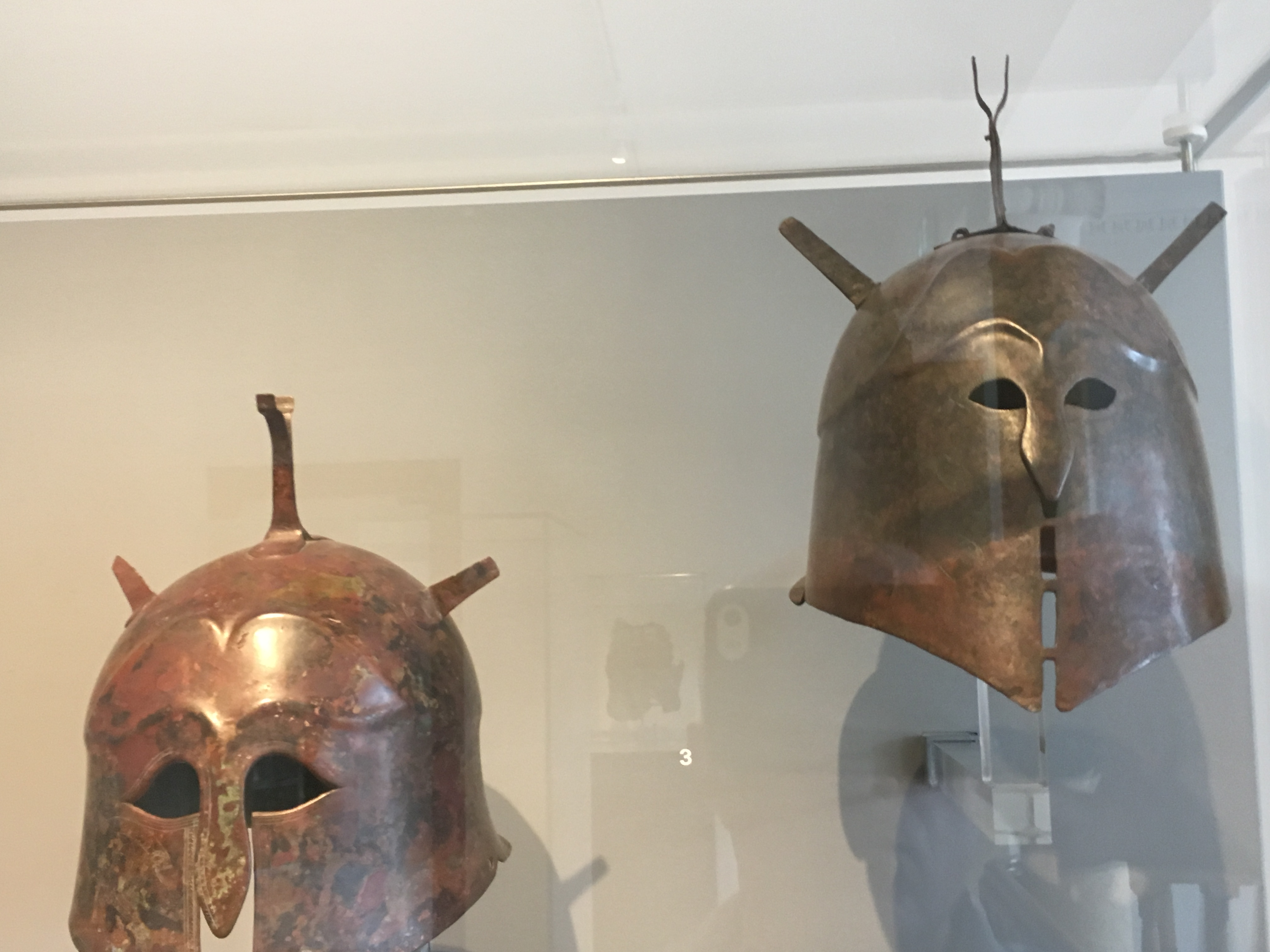 Helmets with antennas in the Antikenmuseum Basel und Sammlung Ludwig